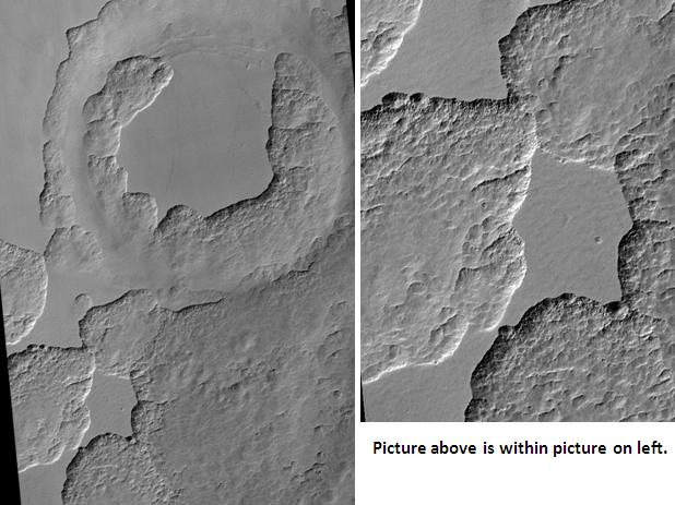 Scalloped Terrain at Peneus Patera, as seen by hirise. Location is 57 degrees south latitude and 51.3 degrees east longitude. Image was taken by the Mars Reconnaissance Orbiter's HiRISE. The HiRISE camera was built by Ball Aerospace and Technology Corporation and is operated by the University of Arizona. Image courtesy NASA/JPL/University of Arizona.